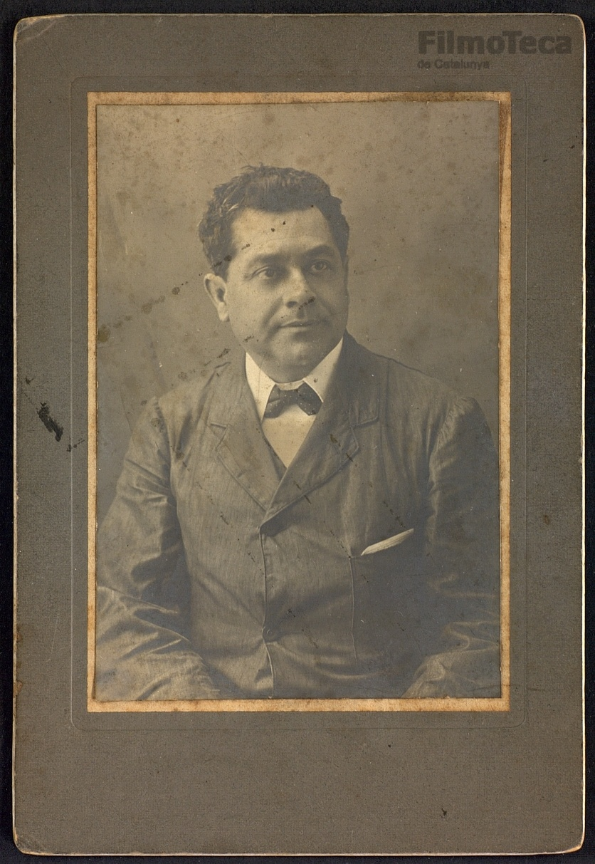 Portrait of Domenc Ceret